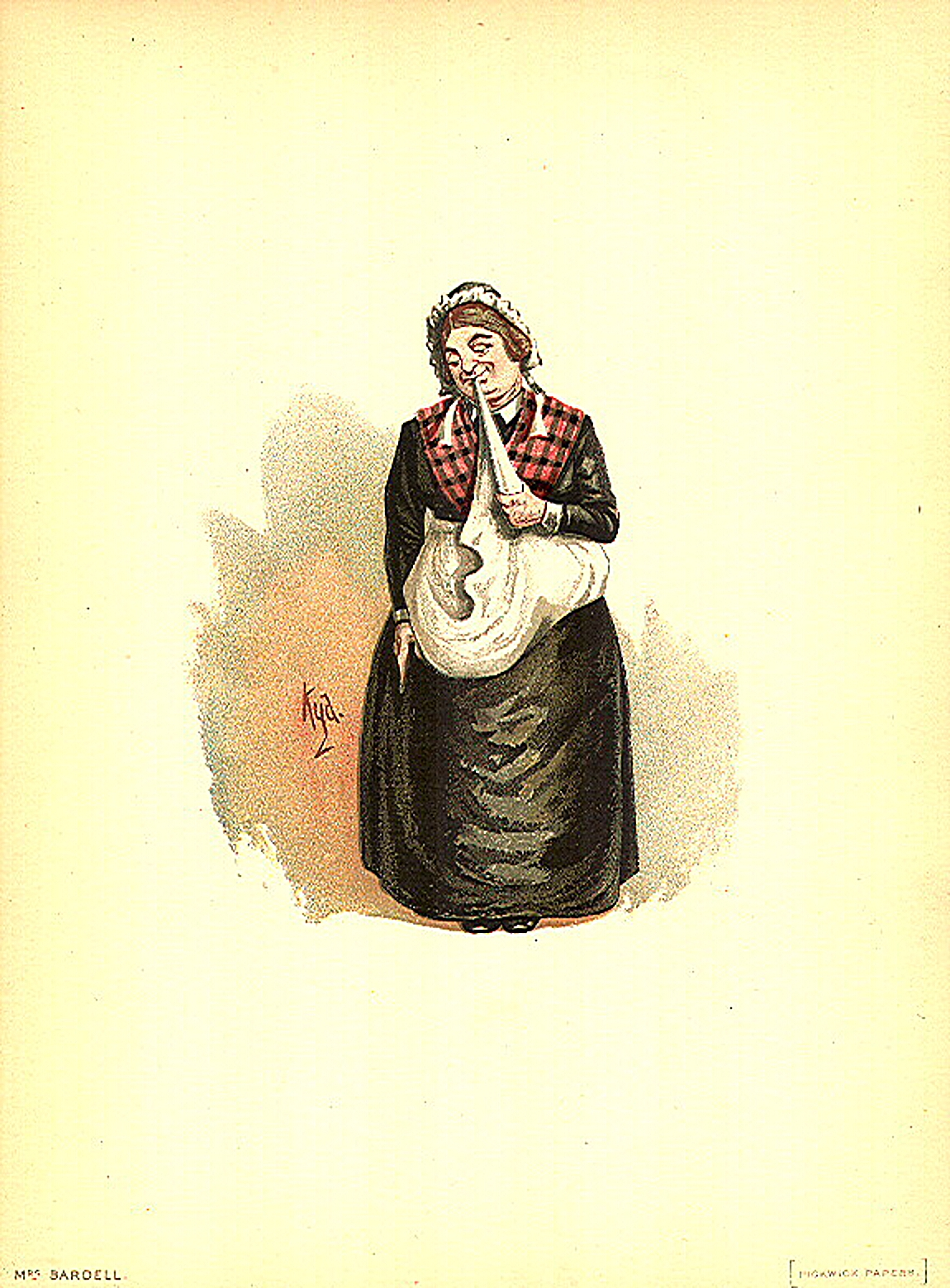 From "Character Sketches from Charles Dickens, Pourtrayed by Kyd", or "The Characters of Charles Dickens Pourtrayed in a Series of Original Water Colour Sketches by Kyd." Scanned and archived at where it was marked as Public Domain.